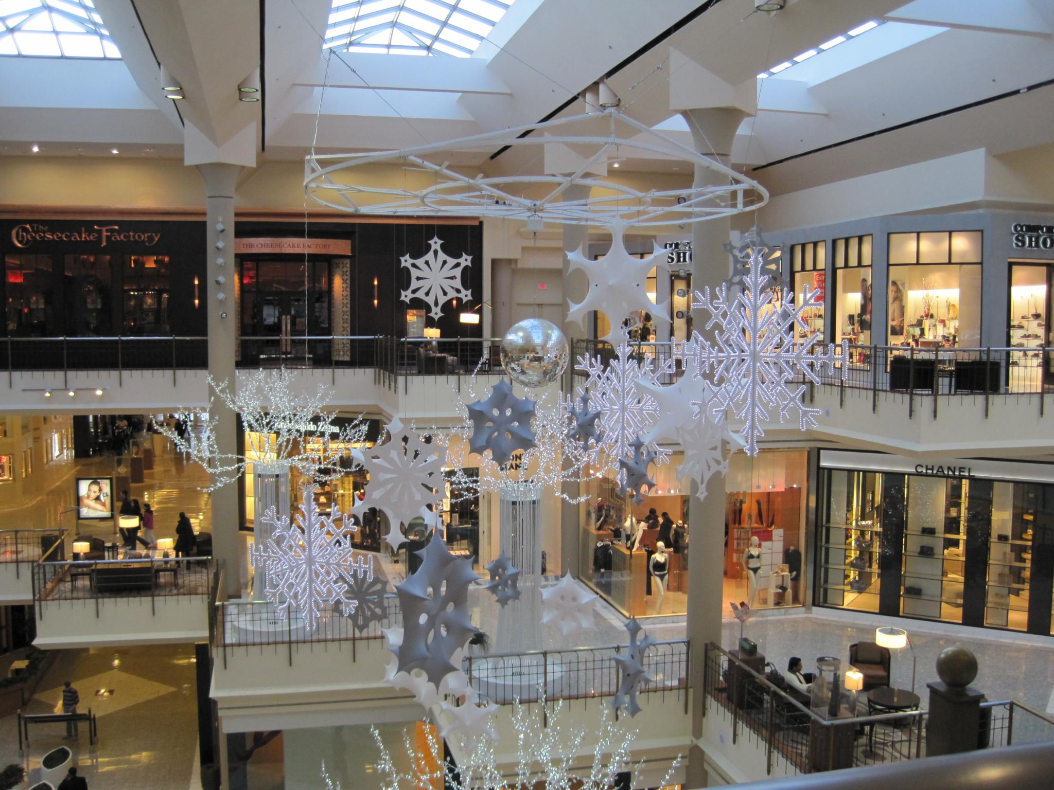 (cc) Shashi Bellamkonda Please feel free to use this picture in your blog ,website or presentation and credit as shown. Thanks